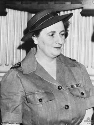 AWM Caption: A PORTRAIT OF NFX76584 SISTER ELLEN SAVAGE, GM., AUSTRALIAN ARMY NURSING SERVICE, THE SOLE SURVIVOR OF TWELVE NURSING SISTERS WHO WERE ABOARD THE AUSTRALIAN HOSPITAL SHIP "CENTAUR" WHEN IT WAS SUNK BY ENEMY ACTION OFF THE QUEENSLAND COAST ON THE 1943-05-14. IT WAS DURING THIS TRAGEDY THAT SISTER SAVAGE WON THE GEORGE MEDAL.